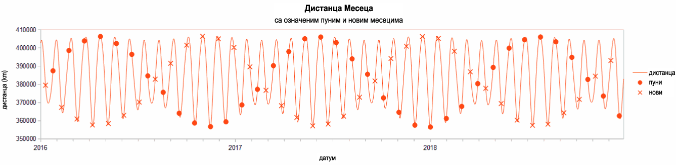 Distance of the moon obtained from JPL Horizons On-Line Ephemeris System, with full and new moons highlighted. [in Serbian]